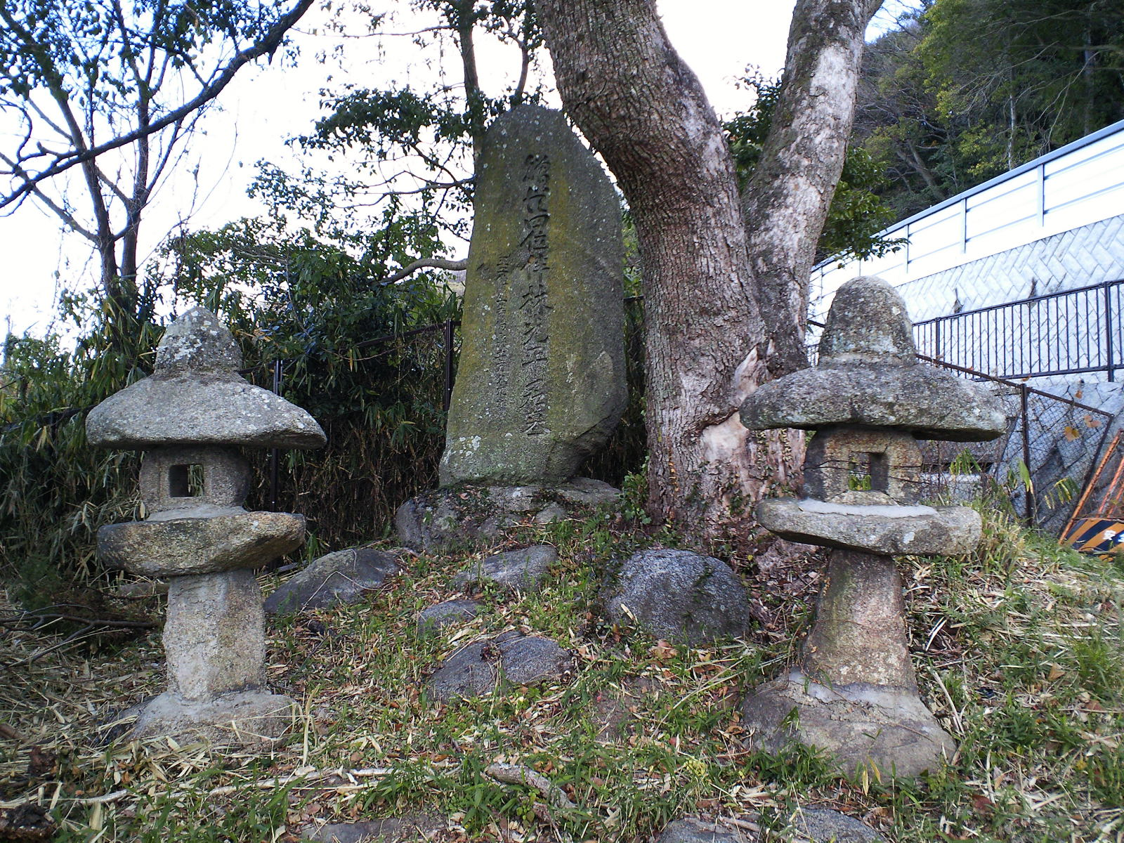 Gravestone of Mitsuhira Tomobayashi, Yao, Osaka Japan